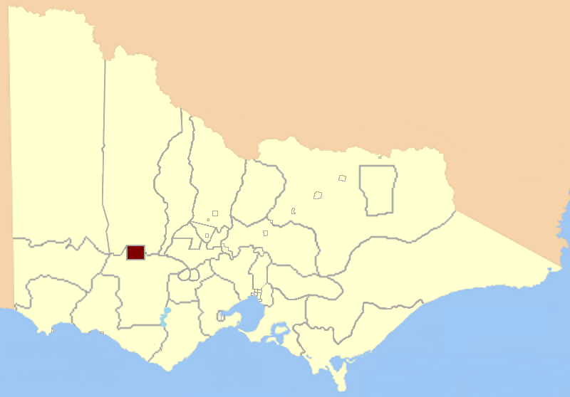 Electoral district of Avoca, Victorian Legislative Assembly 1859–1889